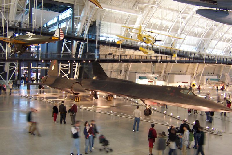 The SR-71 Blackbird. They love this plane here at the Smithsonian.